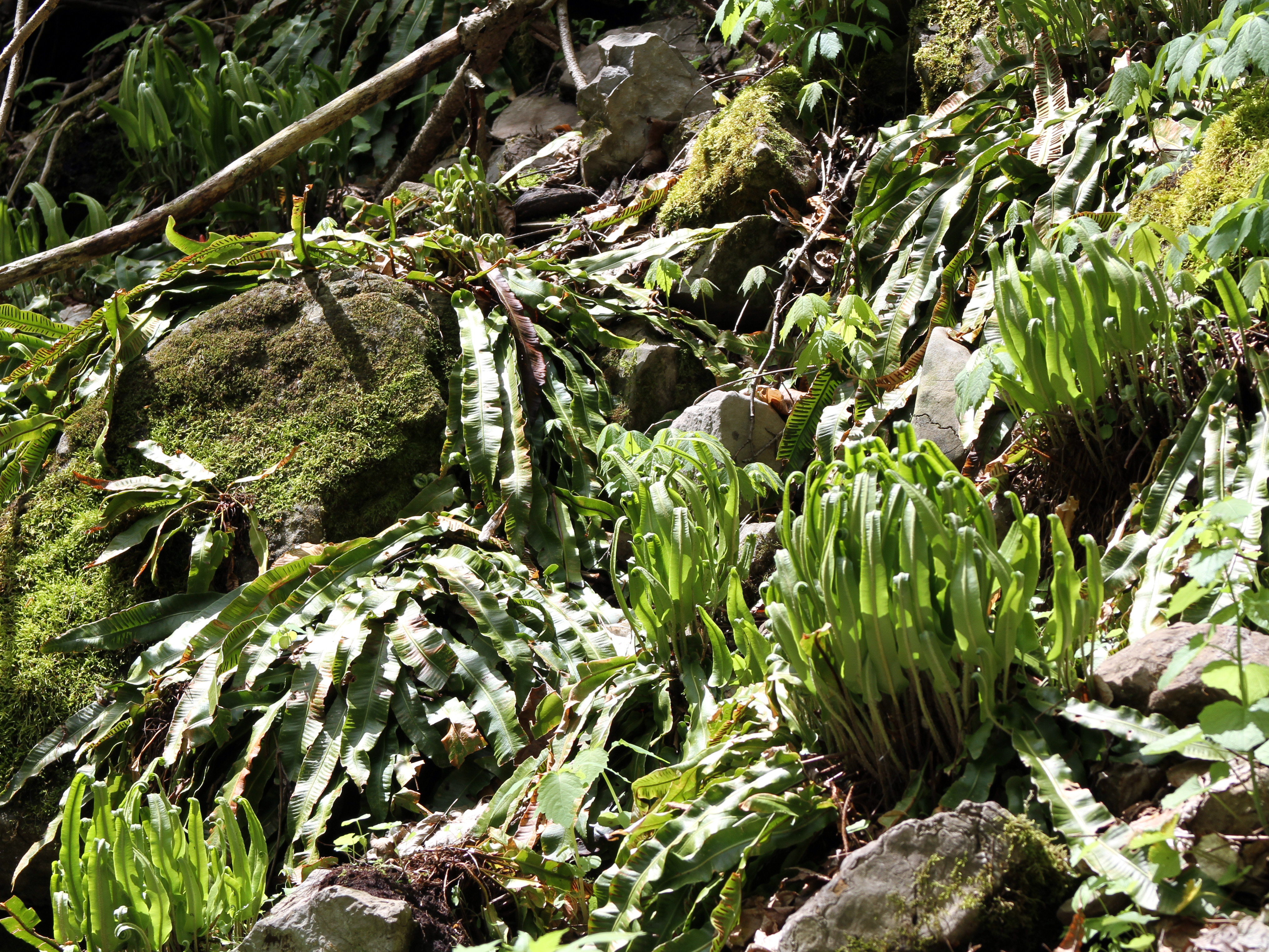 Asplenium scolopendrium var. americanum - Hart's-tongue fern. Photographed at Clark Reservation State Park, Onondaga County, New York